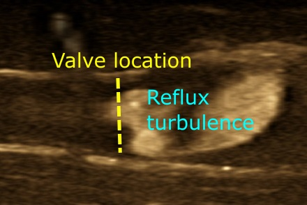 B-flow mode of ultrasonography over a valve of the great saphenous vein a couple of centimeters above the level of the knee of a 67 year old woman who had developed a thrombosed aneurysm inferiorly. Blood is normally flowing toward left in the image, but compression and subsequent decompression causes a visible venous reflux (flow toward right in the image).